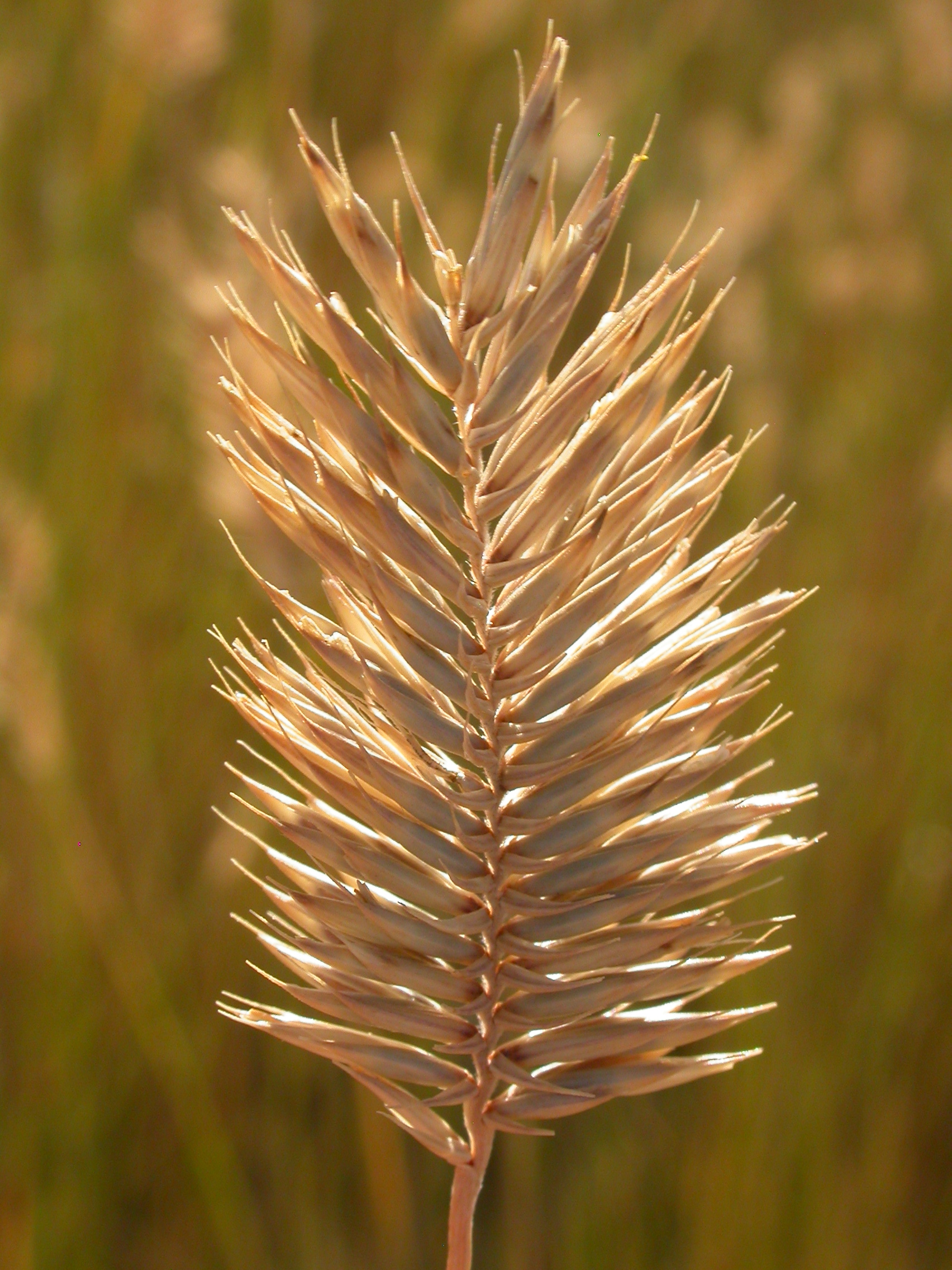 Crested wheatgrass heads fully mature by middle August when the leaves and stems remain green (although rich in silica and lignin).